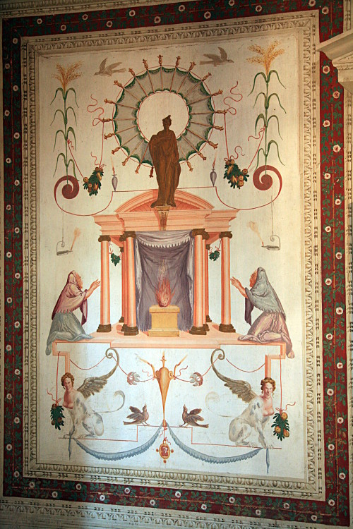 Villa Emo. From the west room of the grotescues. Frescoes by Giovanni Battista Zelotti.